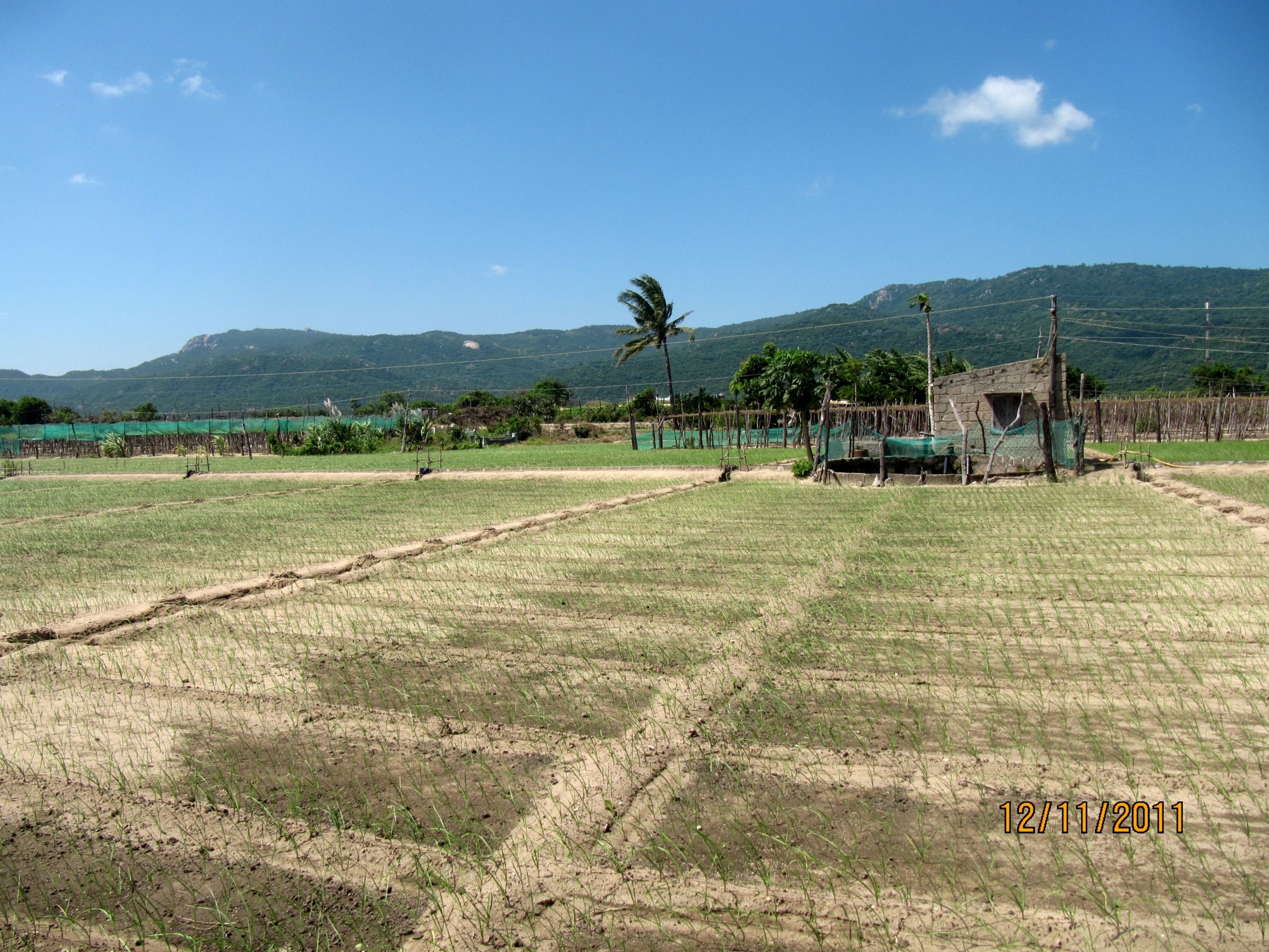 Garlic Farm in Vinh Hai commune, Ninh Thuan province Аҧсшәа: Ruộng trồng tỏi ở Vĩnh Hải, Ninh Thuận